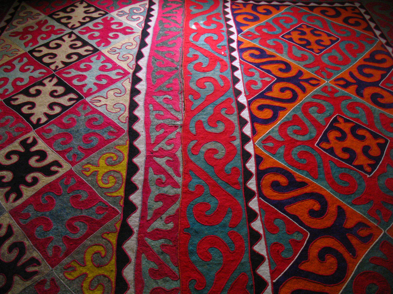 A shyrdaq on the floor of a Kyrgyz home in Kyzyl-Jar, Aqsy, Jalalabat. Кыргызча: Жалалабат облусунда, Аксы районунда, Кызыл-Жар айылындагы бир кыргыз үйдүн жеринде жаткан шырдак.